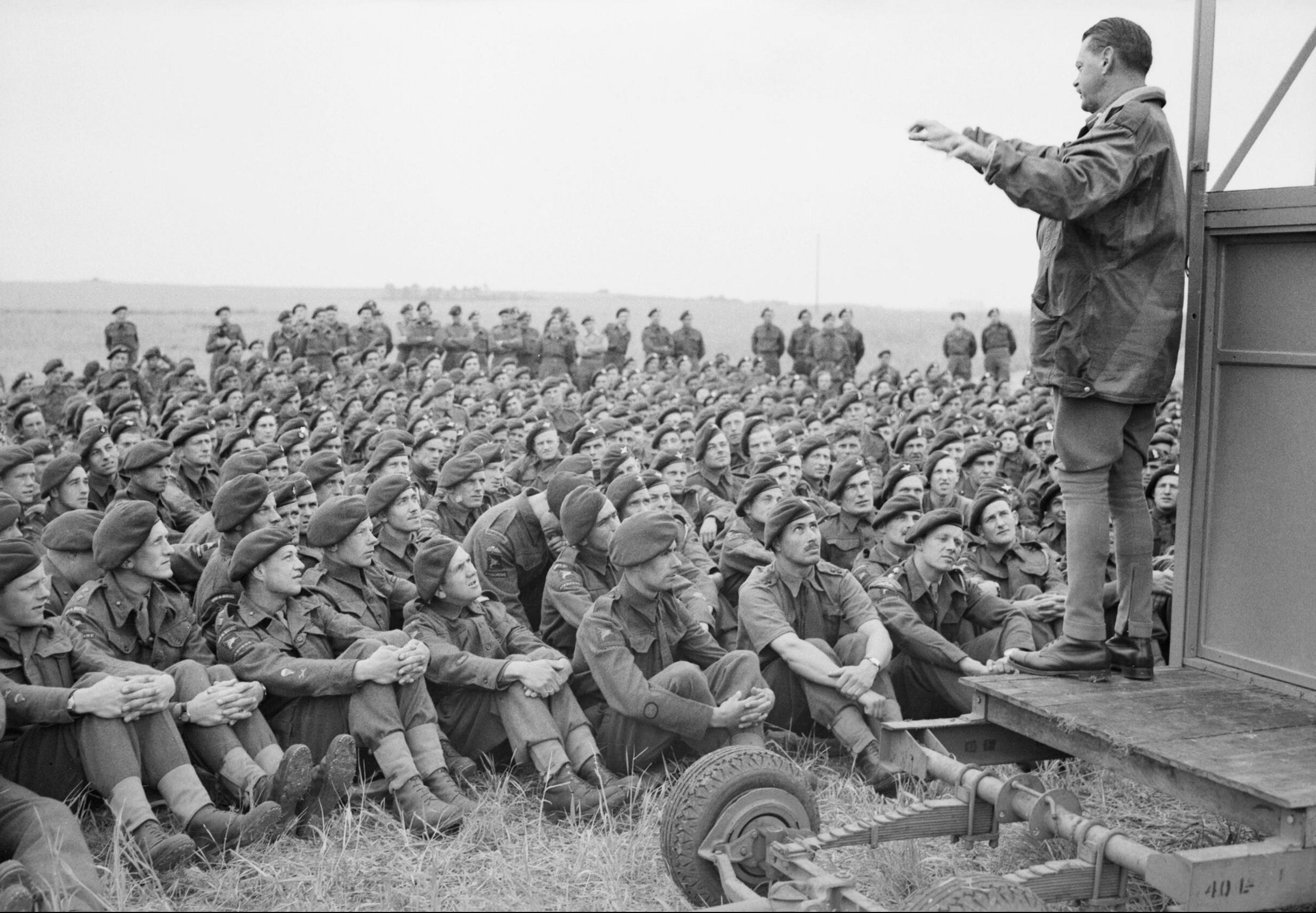 IWM caption : THE BRITISH ARMY IN THE UNITED KINGDOM 1939-45. Major-General Richard Gale, GOC 6th Airborne Division, addresses his men, 4 - 5 June 1944. Comment : this was in preparation for Operation Tonga, the airborne component of the Invasion of Normandy.